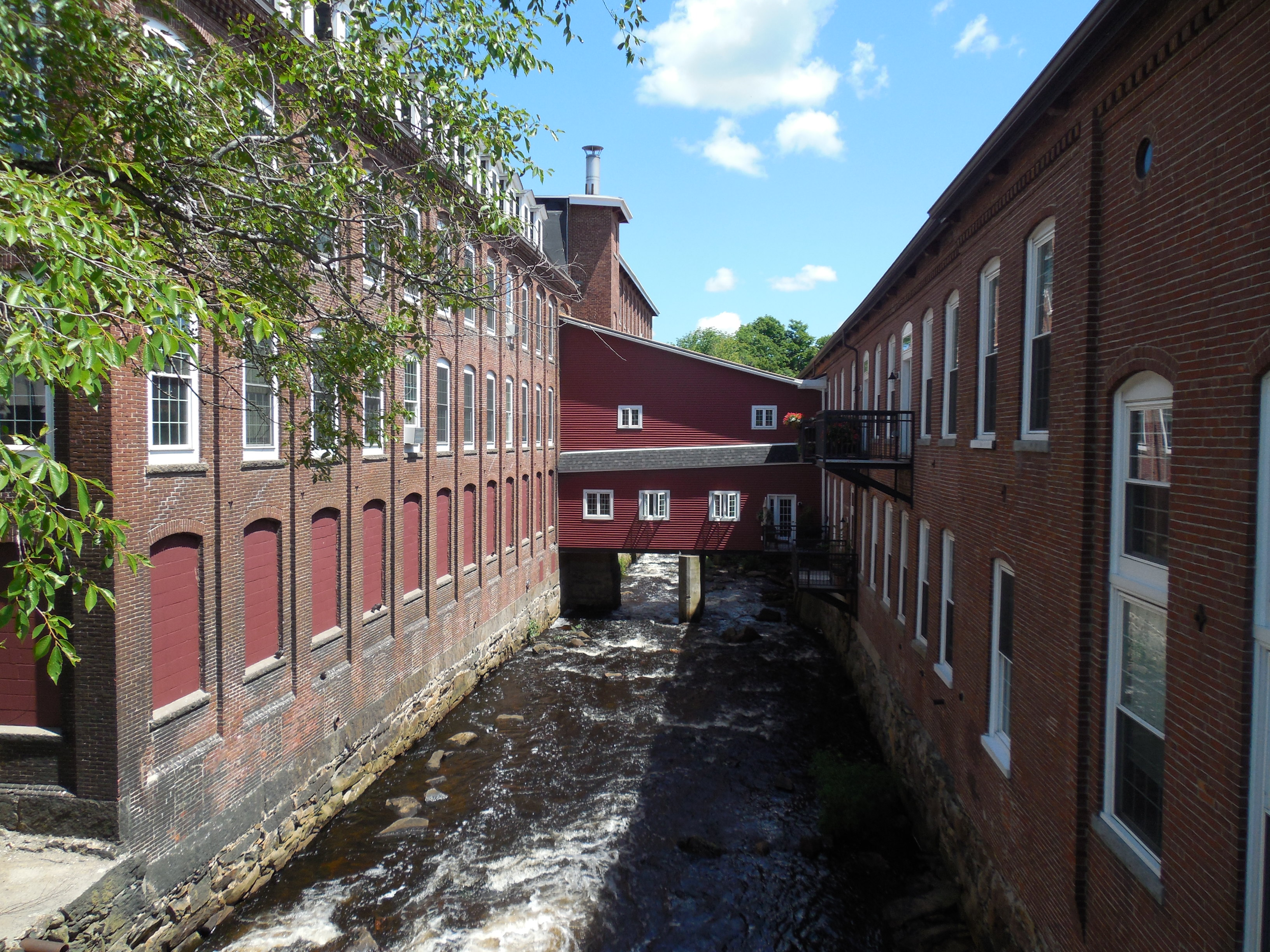 Contoocook River, Jaffrey New Hampshire